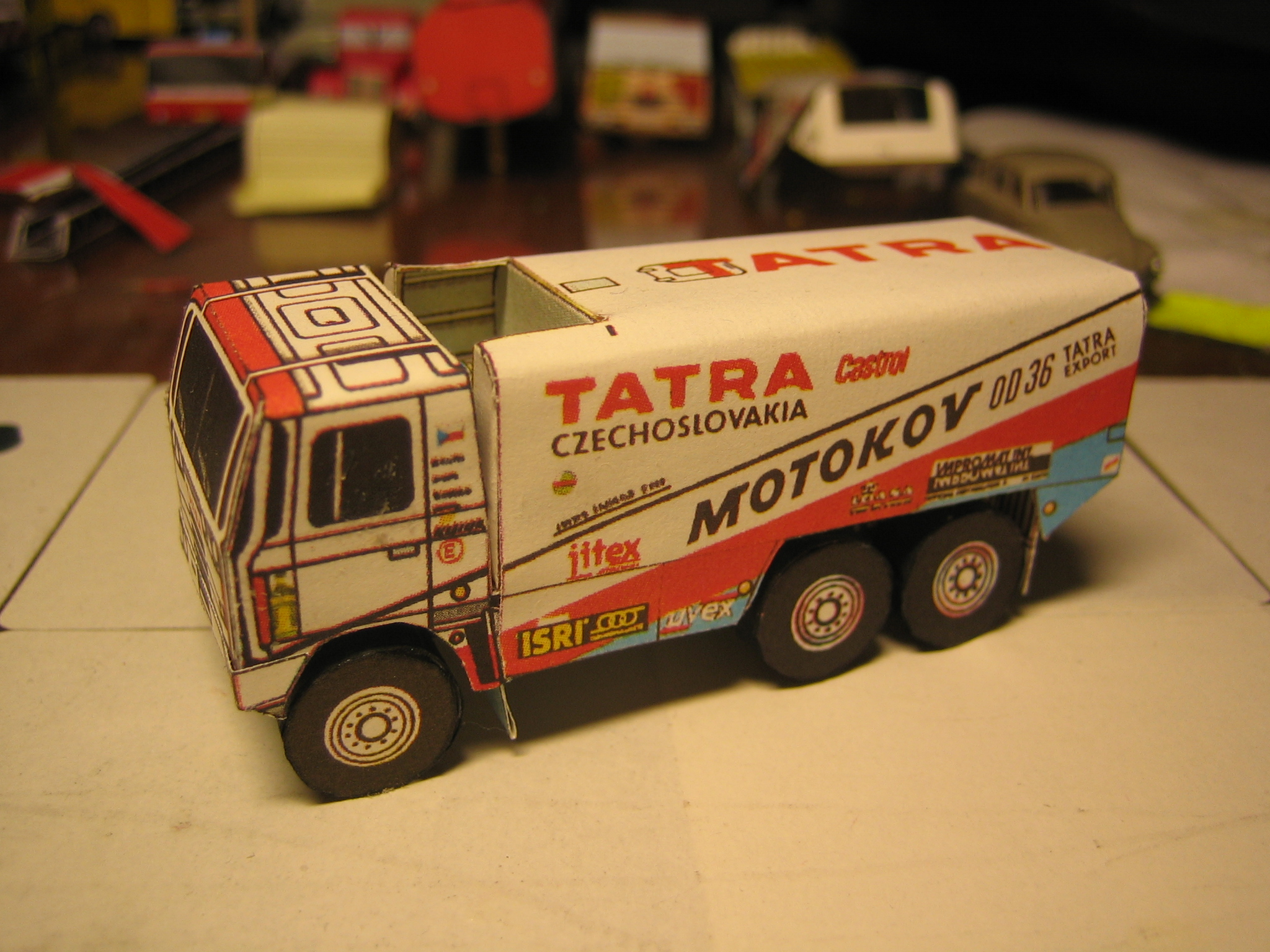 dakar 1991 tatra paper model Česky: Minibox W89 Tatra 815 Dakar 1991